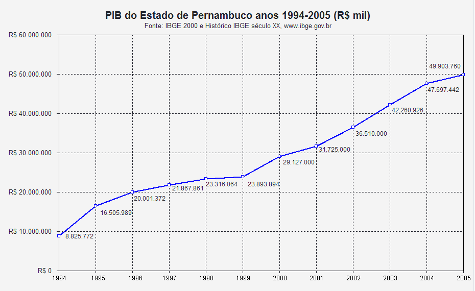 PIB of the brazilian state of Pernambuco, years 1994 to 2005.